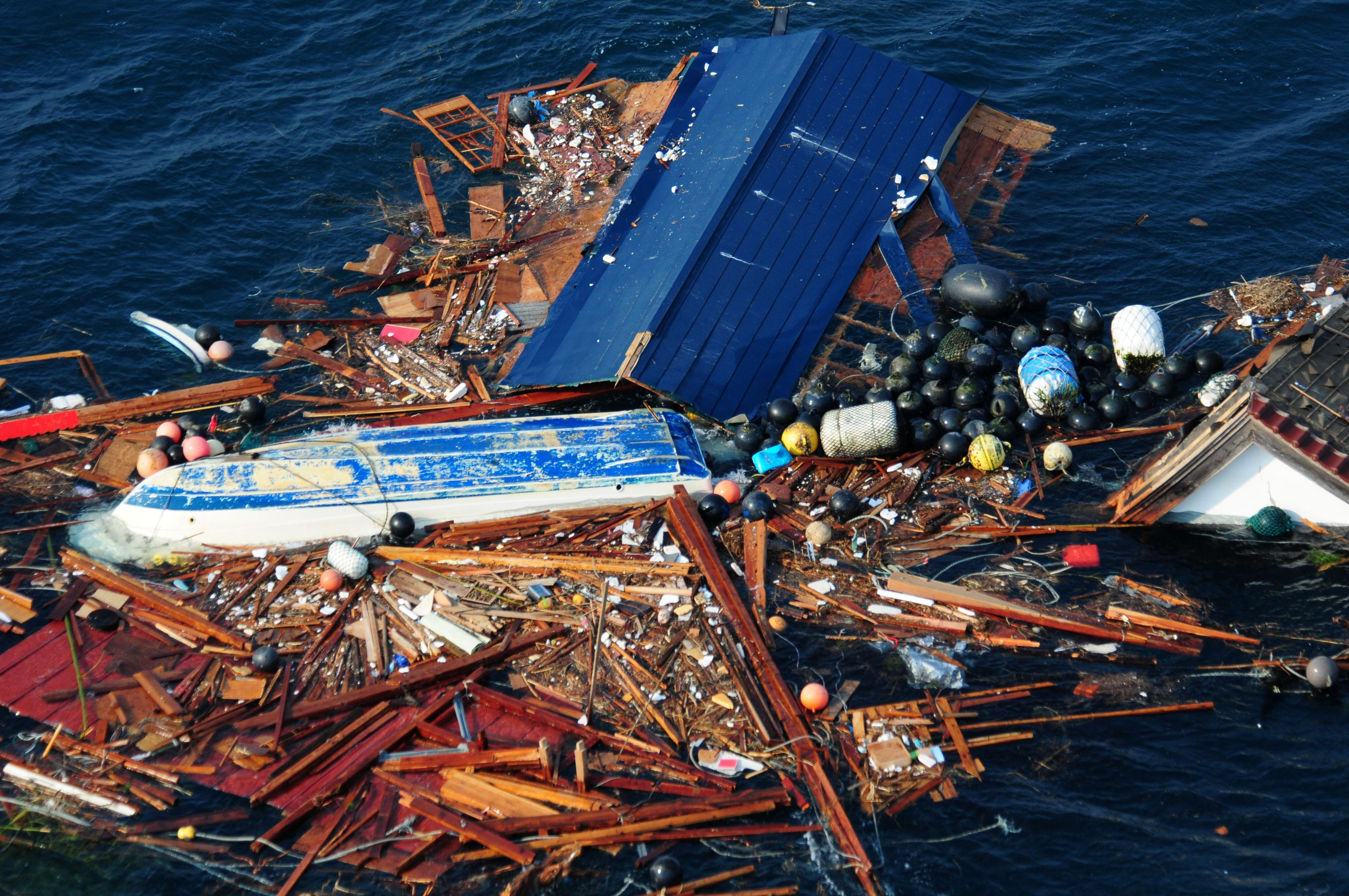 An aerial view of debris from an 8.9 magnitude earthquake and subsequent tsunami that struck northern Japan. The debris was inspected by a helicopter-based search and rescue team from the aircraft carrier USS Ronald Reagan. Ships and aircraft from the Ronald Reagan Carrier Strike Group are searching for survivors in the coastal waters near Sendai, Japan. (Photo by: Petty Officer 3rd Class Alexander Tidd) Navy Visual News Service Date Taken:03.13.2011 Location:ABOARD USS PREBLE, USAFRICOM, AT SEA Related Photos